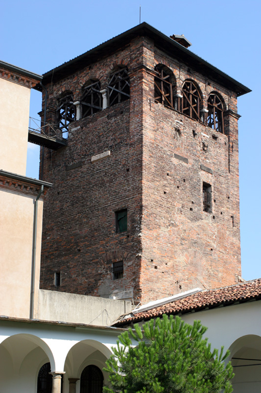 Desription Torre del Circo di Massimiano a Milano, oggi campanile della chiesa di San Maurizio. The only preserved tower of the carceres of the roman Circus, now the campanile of Chiesa di San Maurizio al Monastero Maggiore, Milan